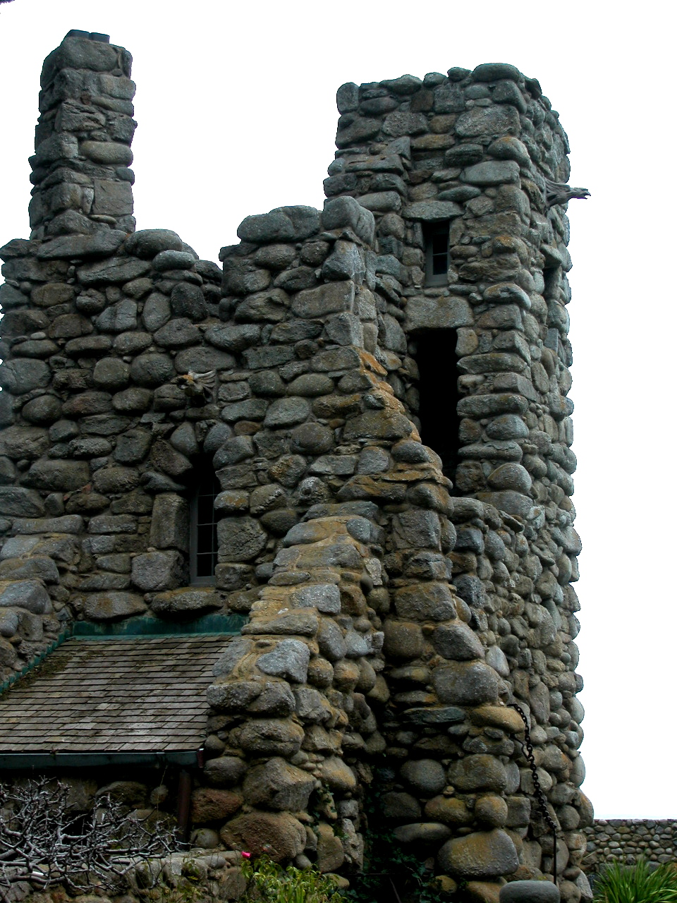 Robinson Jeffers Hawk Tower, Tor House, Carmel, CA 2008 Photo by Celeste Davison